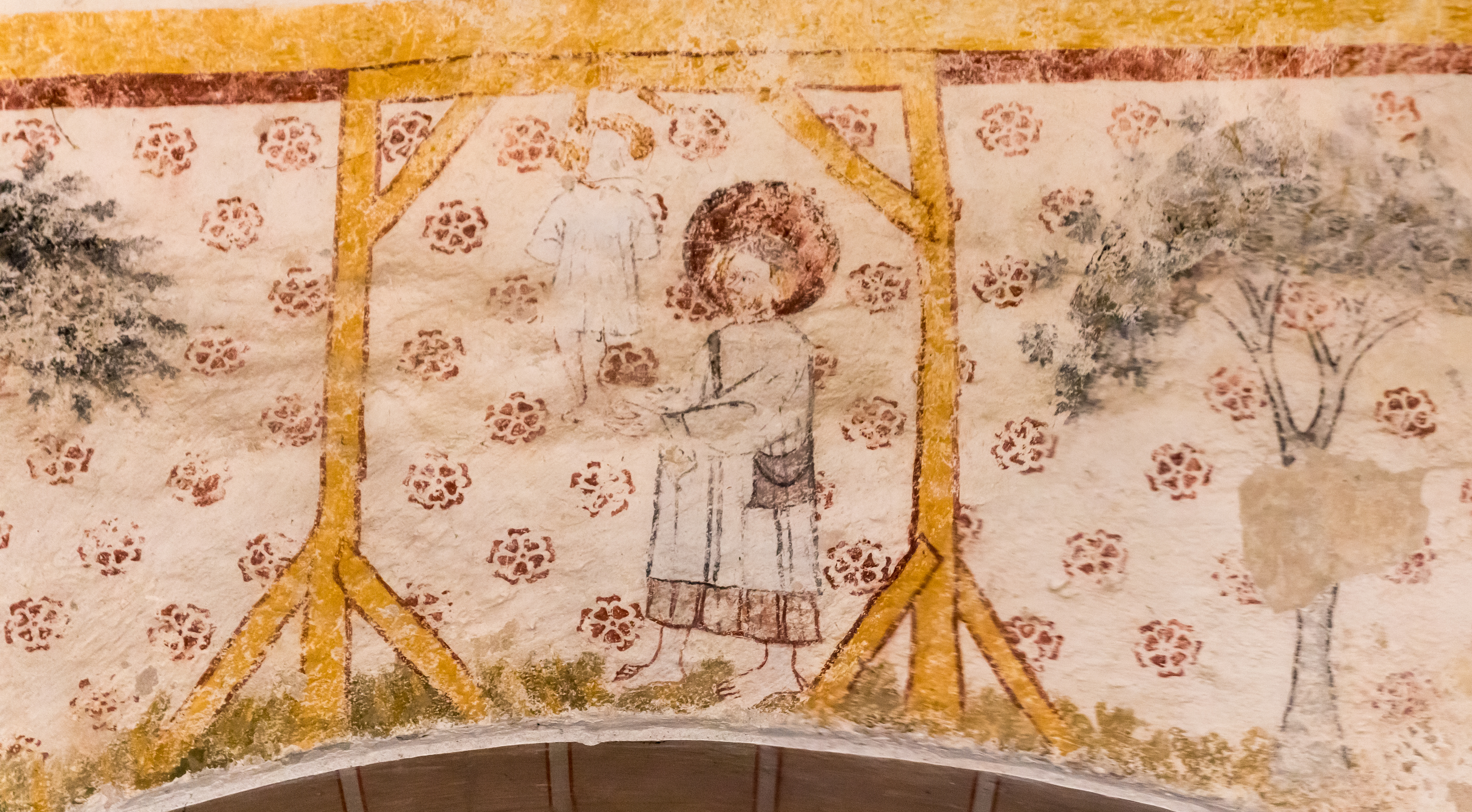 The hanged child supported by Saint James during pilgrimage to Compostela.